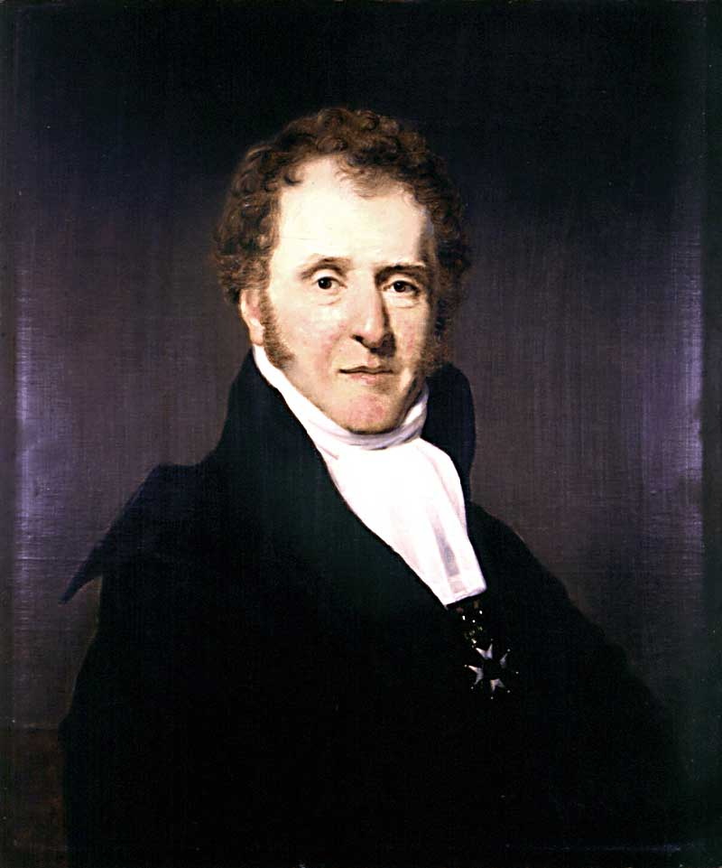 Antonie van Goudoever (1785-1857) Dutch literary scholar and philologist